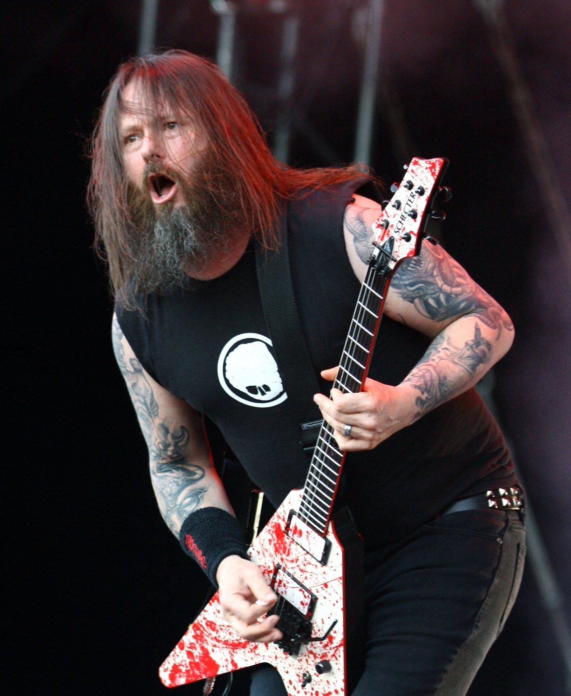 Gary Holt, tour guitarist of Slayer, Rock im Park Festival 2014. Festivalsommer This photo was created with the support of donations to Wikimedia Deutschland in the context of the CPB project "Festival Summer".